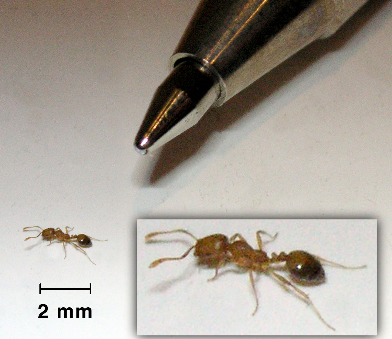 Compared size of a pharaoh ant